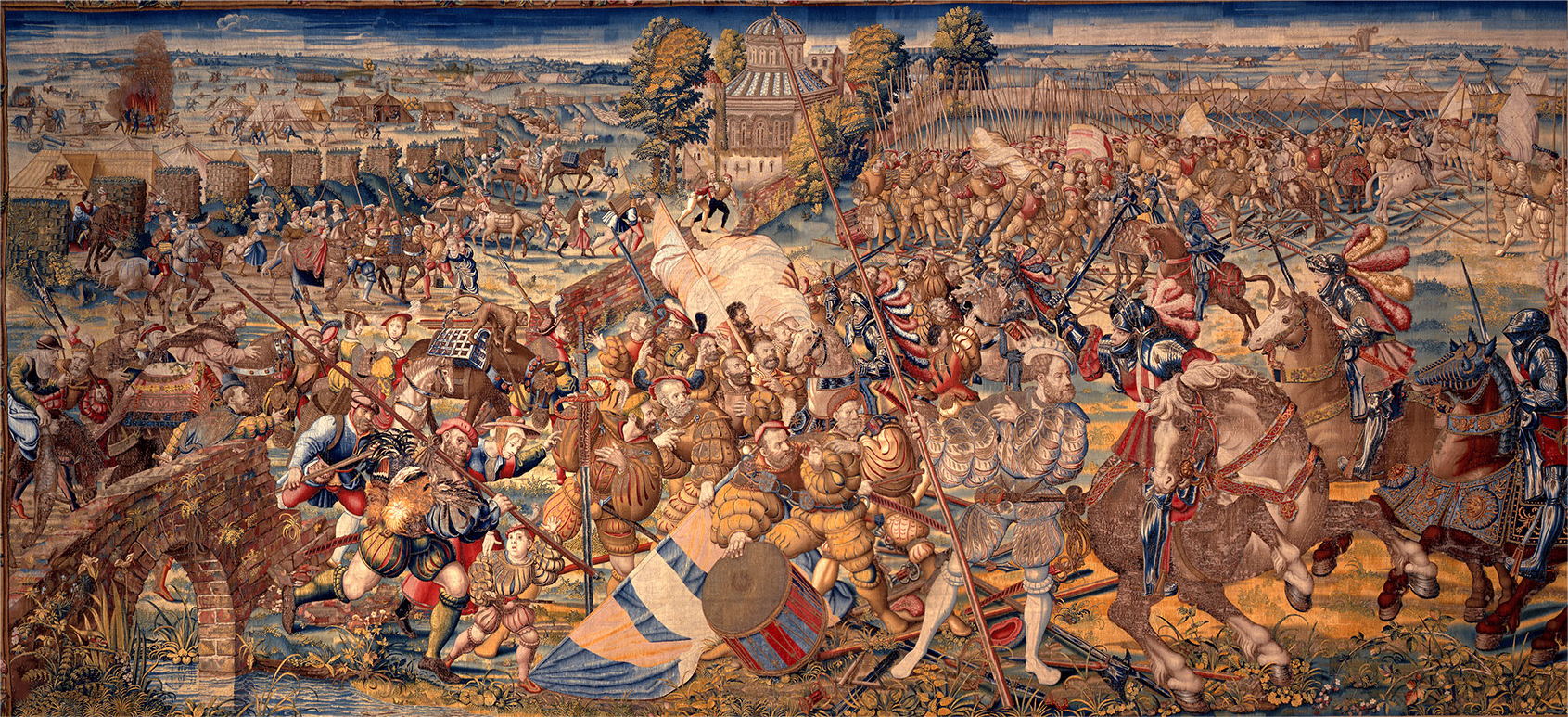 manufactured in Bruxelles